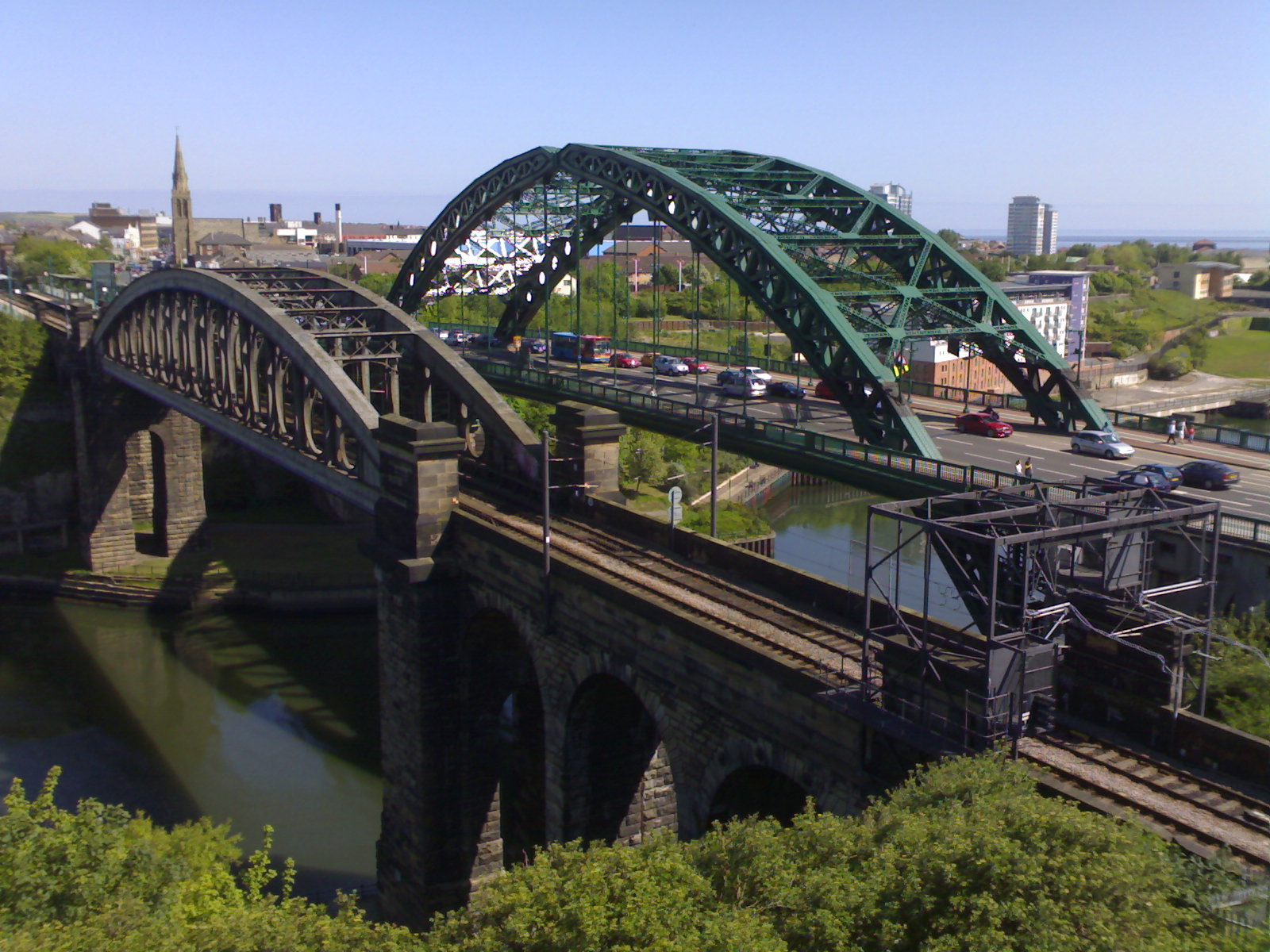 The Wearmouth Bridge is a through arch bridge across the River Wear in Sunderland Original description:03/06/2006. Taken from St Mary's Car Park (parking lot).